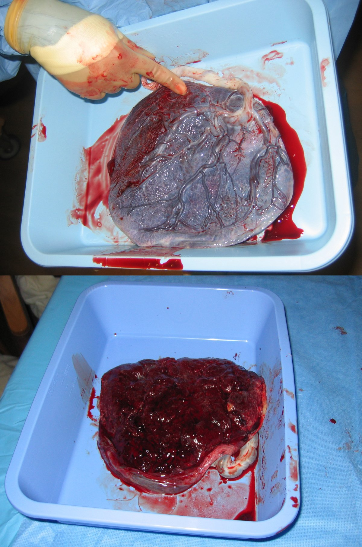 Human placenta shown a few minutes after birth. Above: this side faces the baby with the umbilical cord top right. The white fringe surrounding the bottom is the remnants of the amniotic sac. Below: this side faces the uterine wall with the umbilical cord on the right.